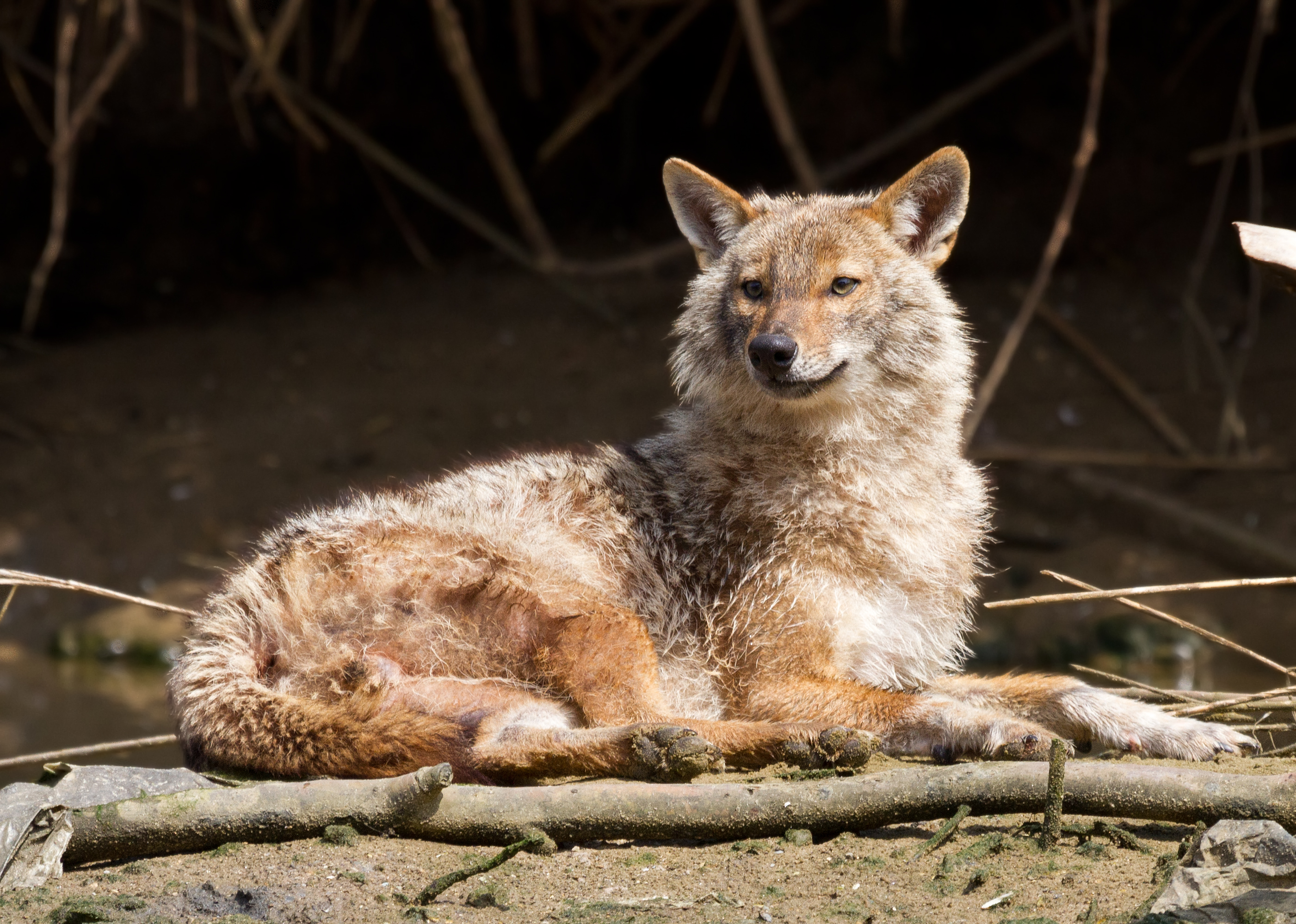 Feral golden jackal at Park Yarkon in Tel-Aviv, Israel